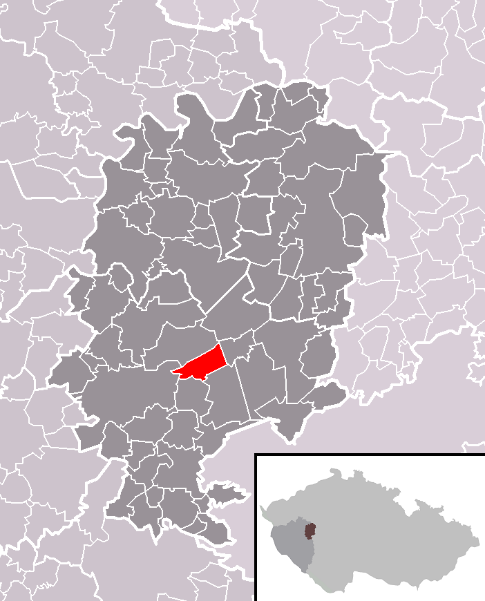 Location of Svojkovice municipality within Rokycany District and within identical administrative area of Rokycany as a Municipality with Extended Competence.